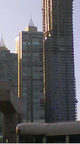 Condominio Punta Roca, Panama City, Panama